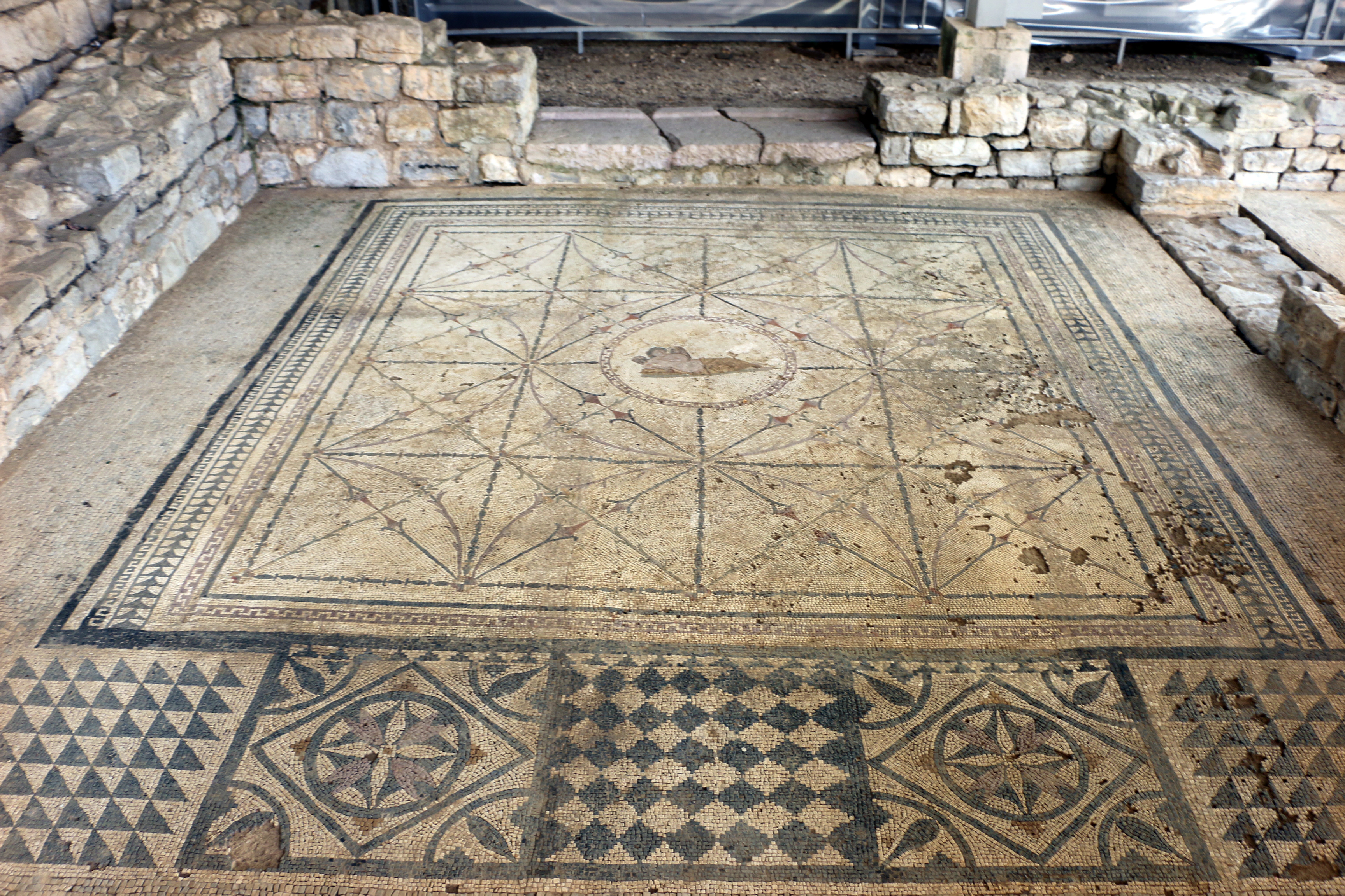 Ancient Roman villa of Risan - Mosaics